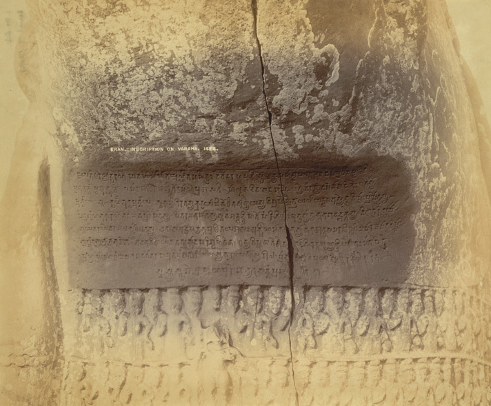 From the source Photograph of the inscription incised on the chest of the large statue of a boar, Varaha, at Eran, taken by Henry Cousens in 1892-94. The town of Eran has been occupied from the second century BC onwards. It is located in a naturally defensible position, in a bend in the Bina river. Eran was an important site during the Gupta period and the pieces shown in this photograph were sculpted at that time. In the background there is a statue of Vishnu. This colossal boar statue (some 11 feet high and 13 feet long ) dates to the 5th century. It is completely covered with miniature carved figures. It represents Vishnu in his boar incarnation lifting the earth, represented as the goddess Bhu, on one of his tusks. The demon Hiranyaksha had pushed the earth under the waters and Vishnu saved it from being submerged. The Sanskrit inscription shown in this photograph refers to the reign of Toramana and it is dated in words to the first year of his reign. The object of this Vaishnava inscription is to record the building of the temple in which the Boar stands, by Dhanyavishnu, the younger brother of the deceased Maharaja Matrivishnu.